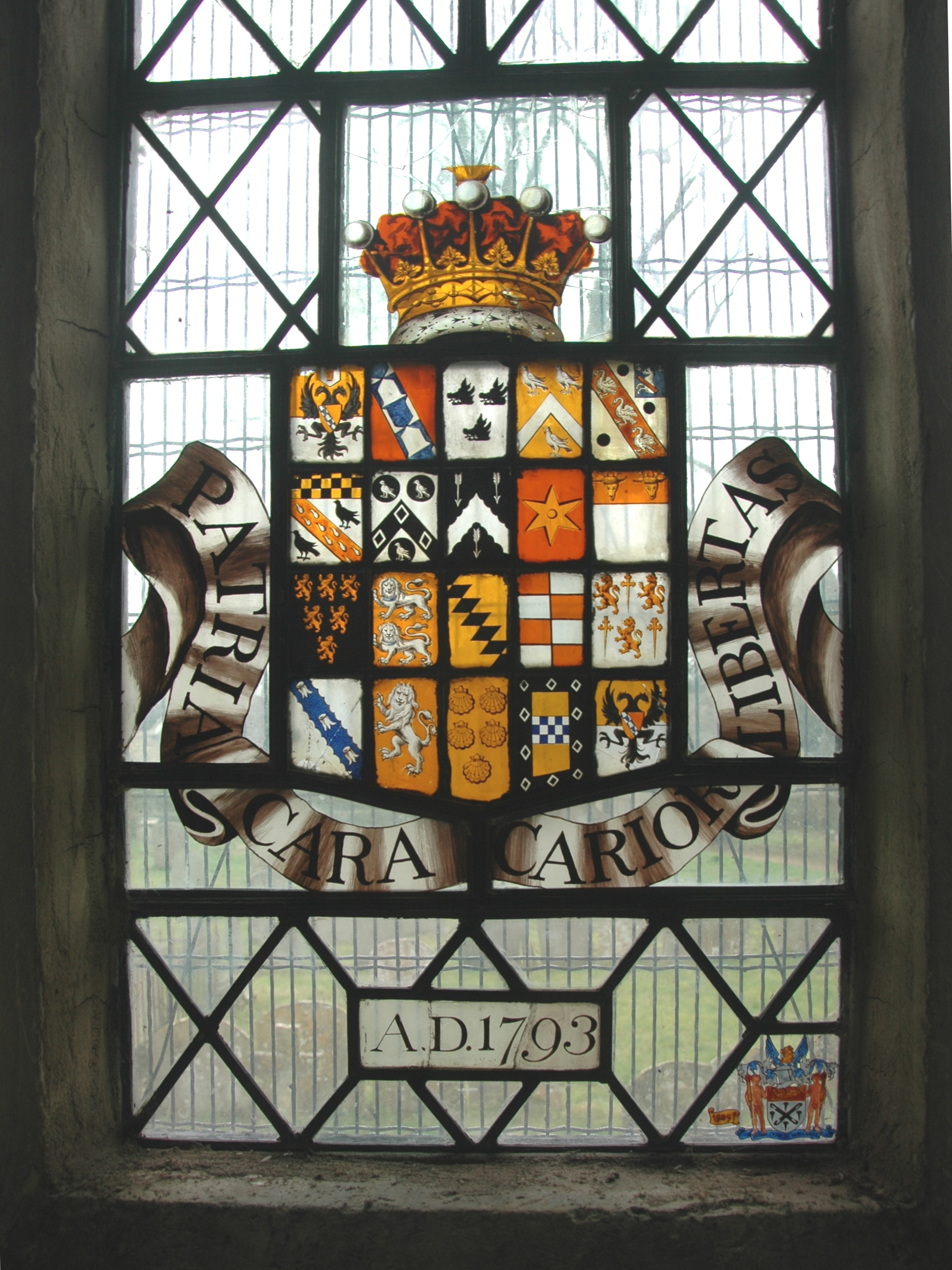 Church of England parish church of St Andrew, Shrivenham, Vale of White Horse: coat of arms, dated 1793, of Jacob Pleydell-Bouverie, 2nd Earl of Radnor in the east window of the chancel. Small coat of arms of the Glazier's Company, bottom right, perhaps a token of restoration work.